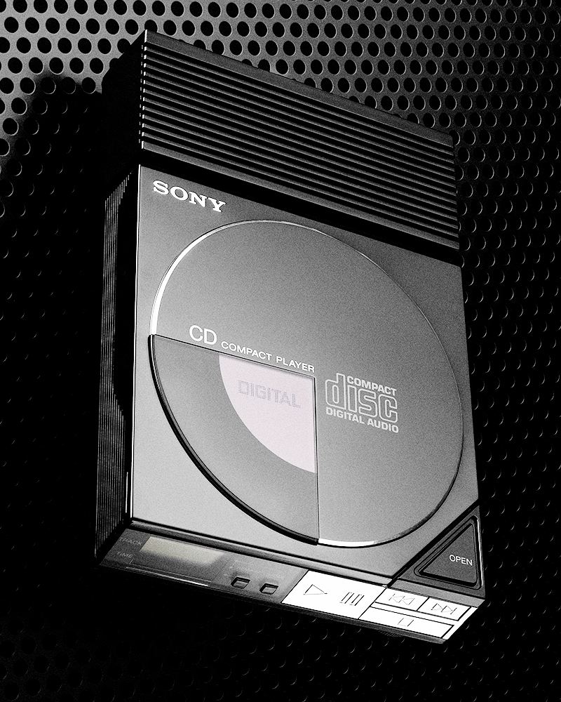 Sony D-5 Discman